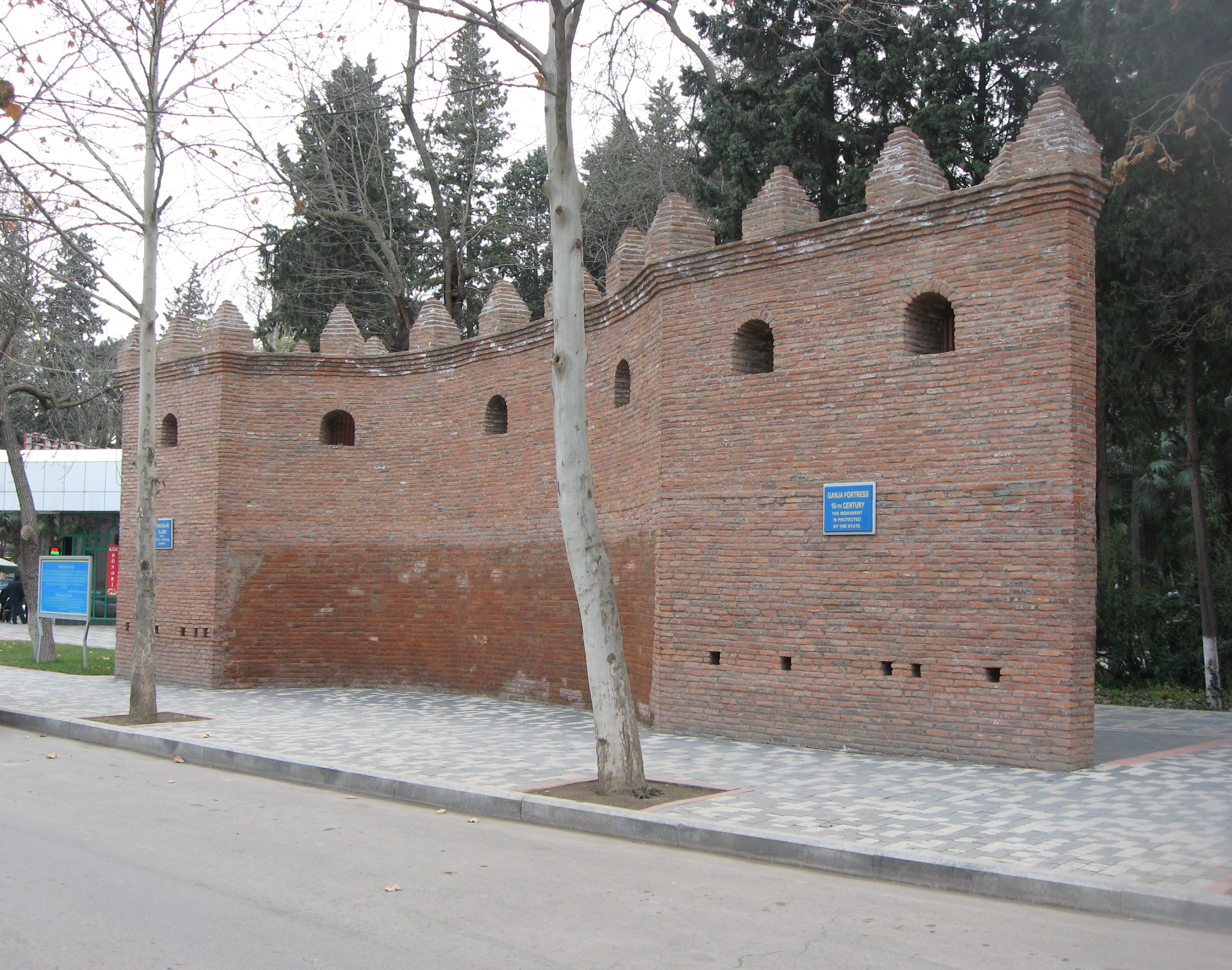 Ganja fortress. 16 century. Protected by state